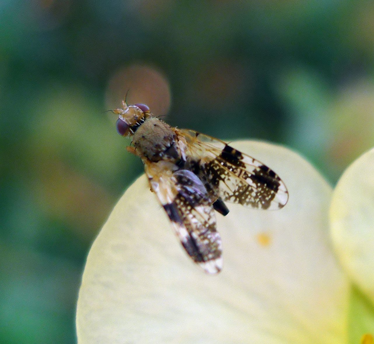 Tephrid or Picture-winged Fly. Tephritis formosa.?